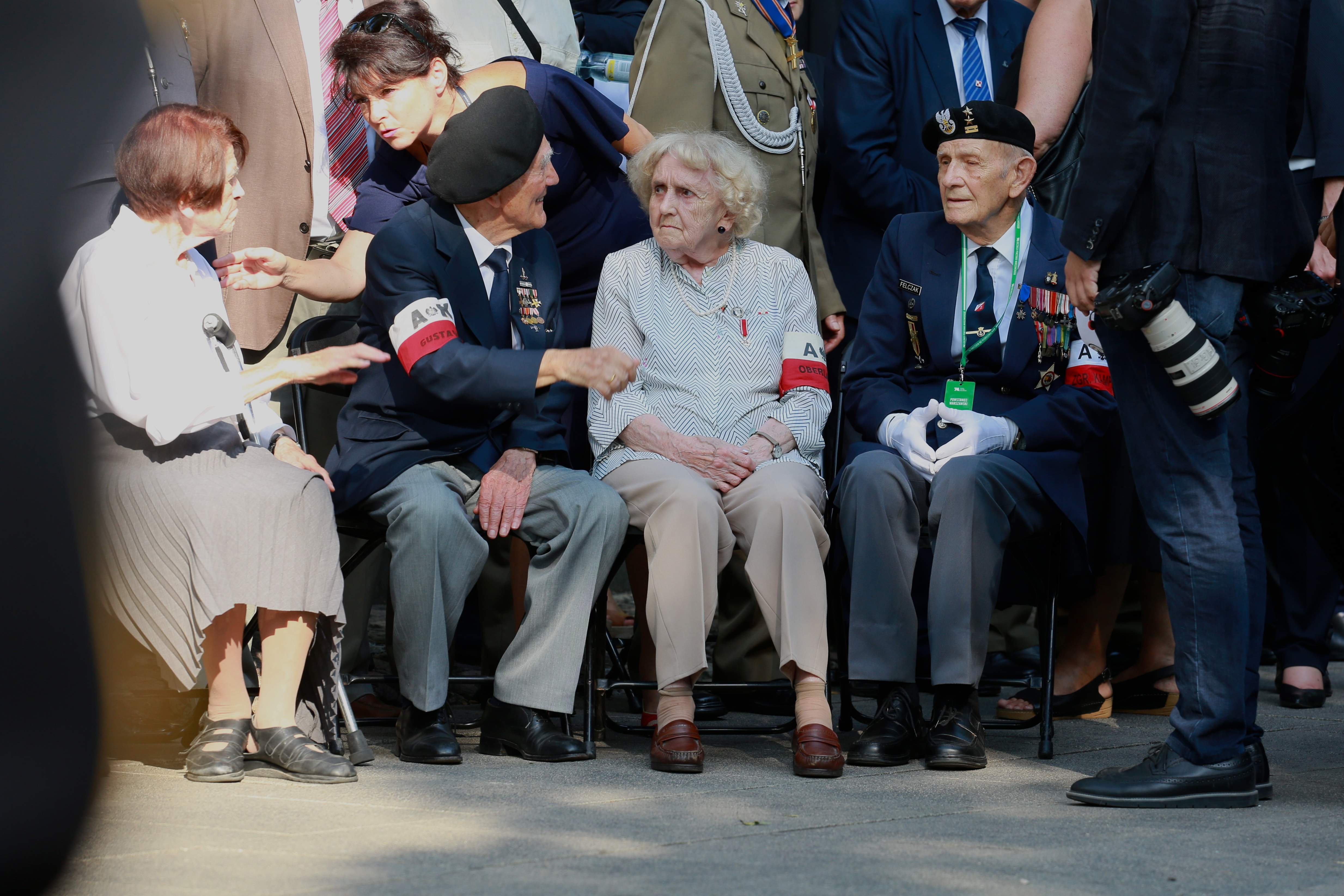 Celebrations of the 74th anniversary of the Warsaw Uprising of 1944 against Hitler's Germany. Veterans, Warsaw Insurgents, soldiers of the Home Army, Polish Underground State 1939-1945.